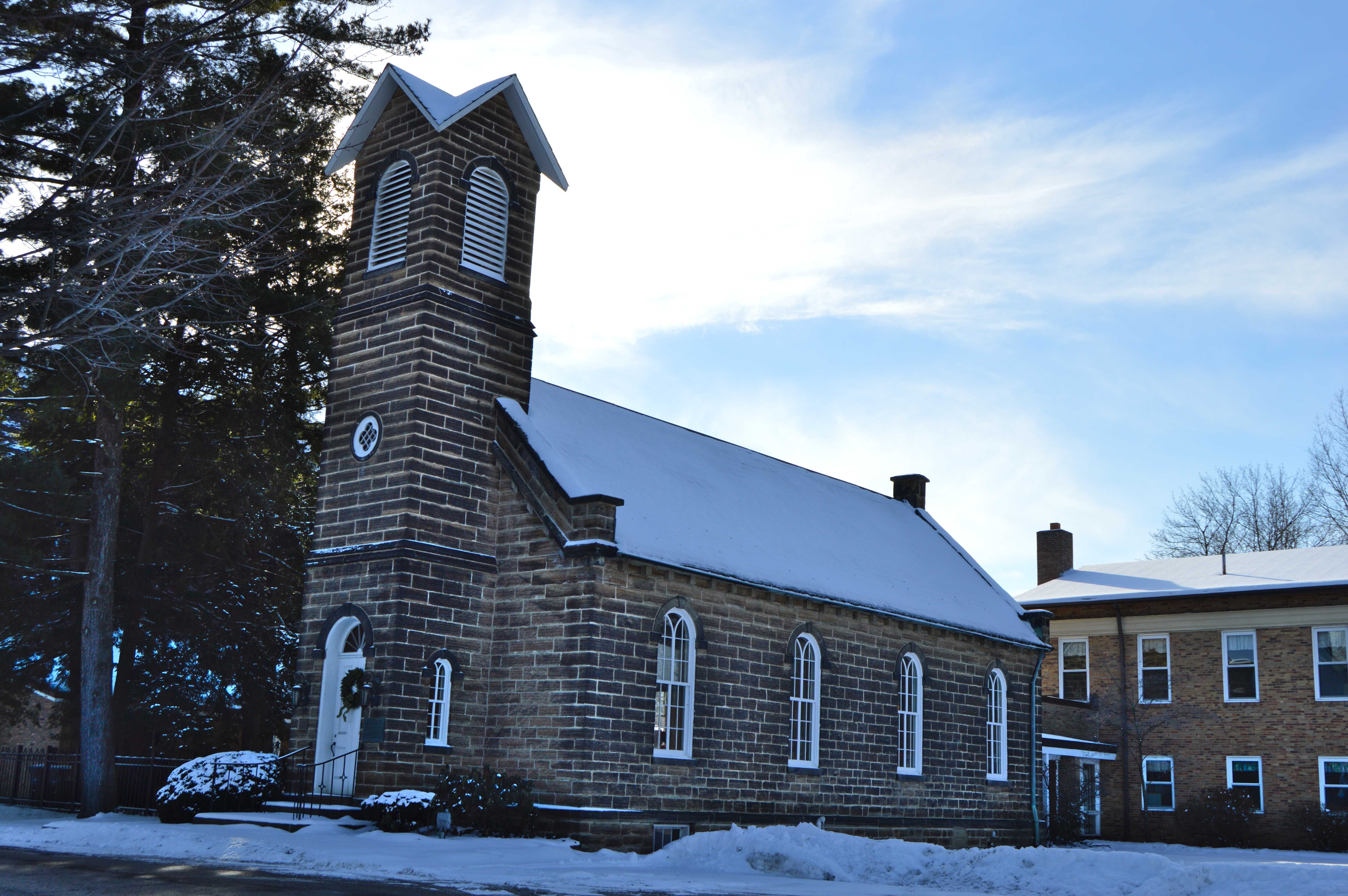 Northern side and front of the Independence Presbyterian Church, located along State Route 21 in central Independence, Ohio, United States. Built in 1853, it is listed on the National Register of Historic Places.